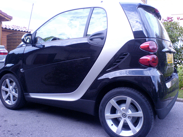 The Smart Fortwo layout may just be the wave of the future